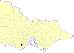 Location of the former City of Colac within Victoria.